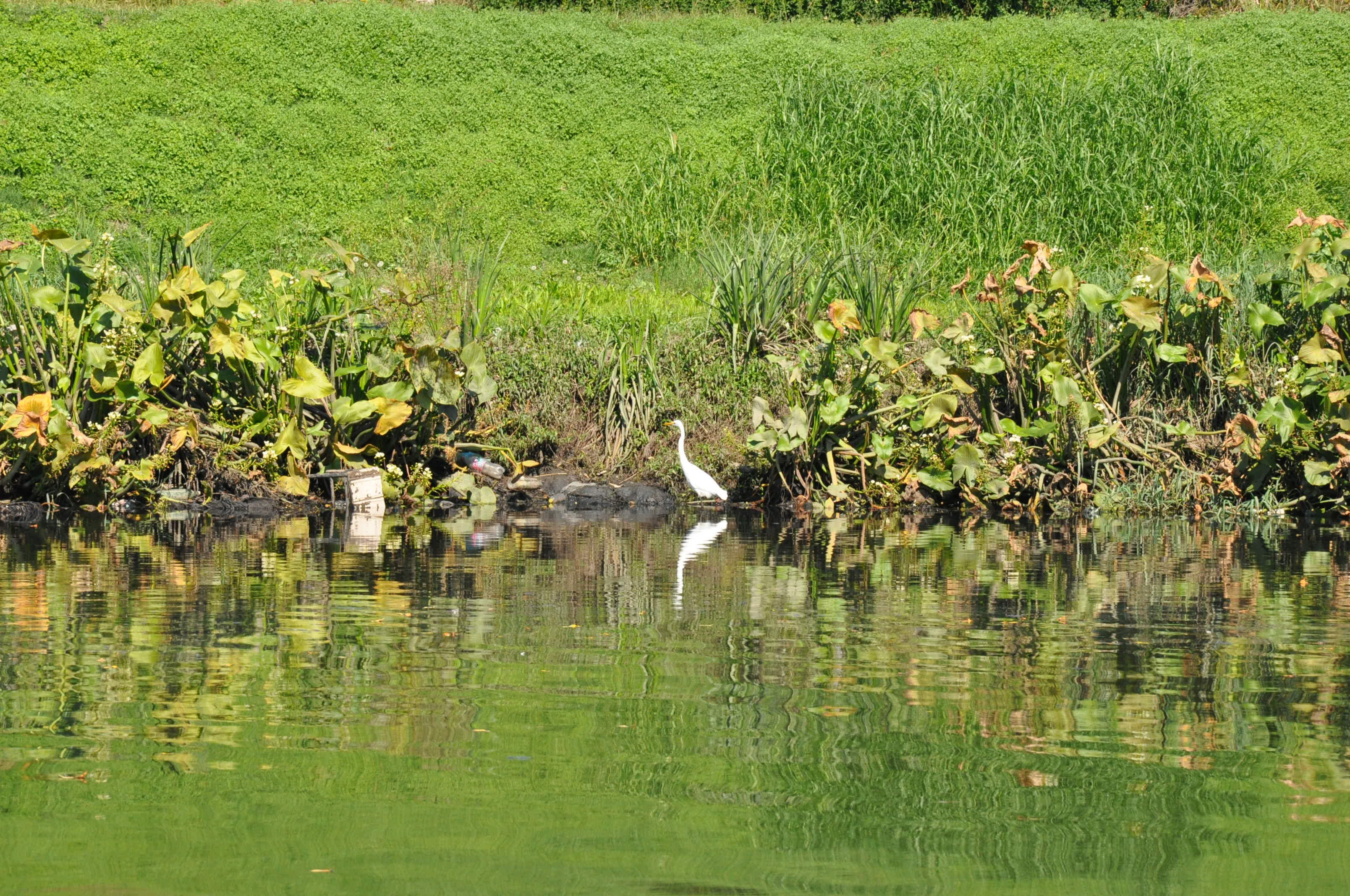 Cada vez hay más vegetación